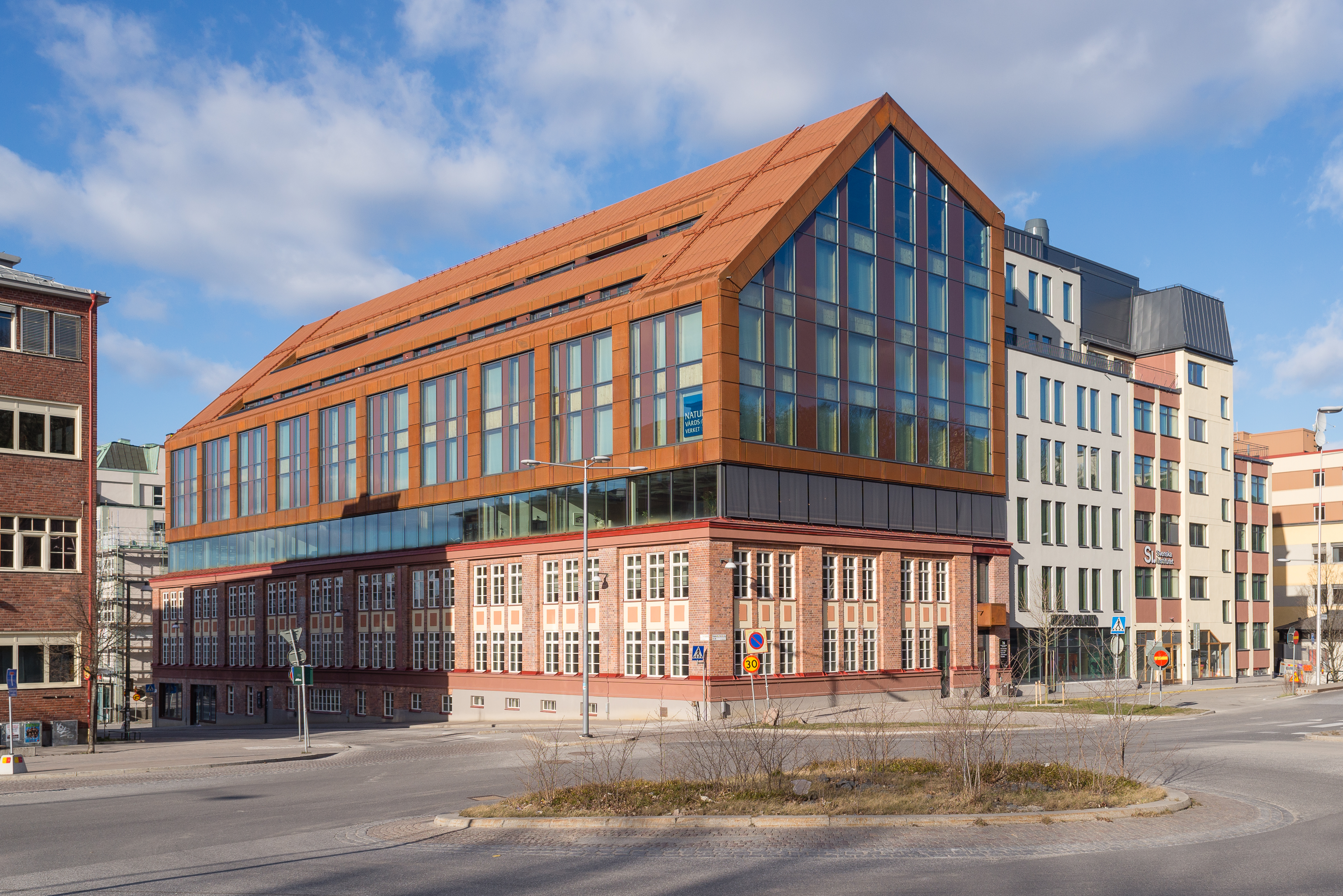 Trikåfabriken